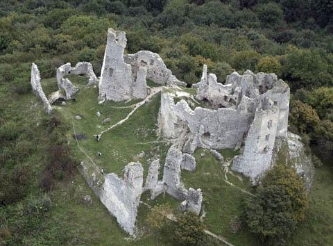 Brekov Castle, Slovakia, aerial photography